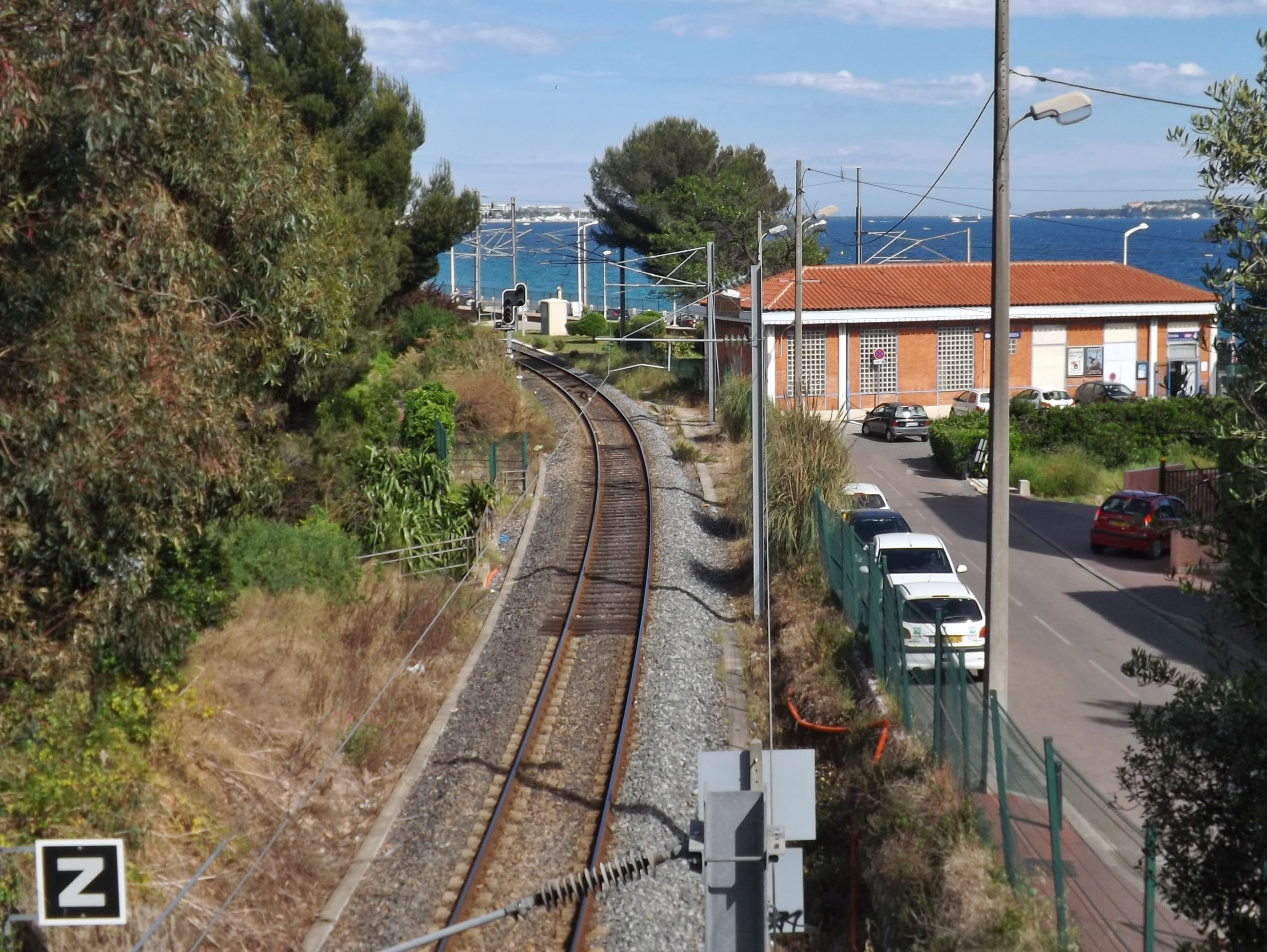 Sight of the extremity of the Grasse to Cannes railway line, around Cannes - La Bocca railway station (on the right), in Cannes, Alpes-Maritimes, France.